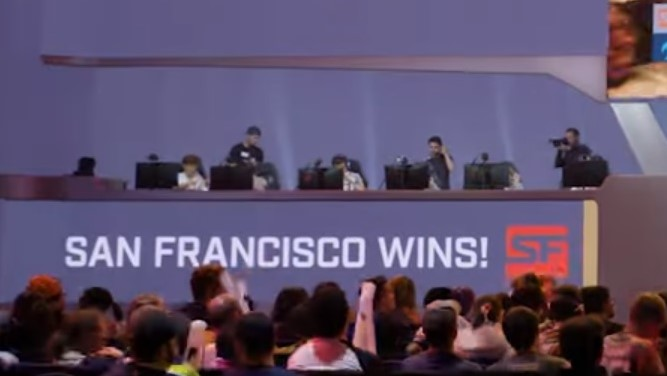 The San Francisco Shock after defeating the Dallas Fuel in 2019 Stage 4.